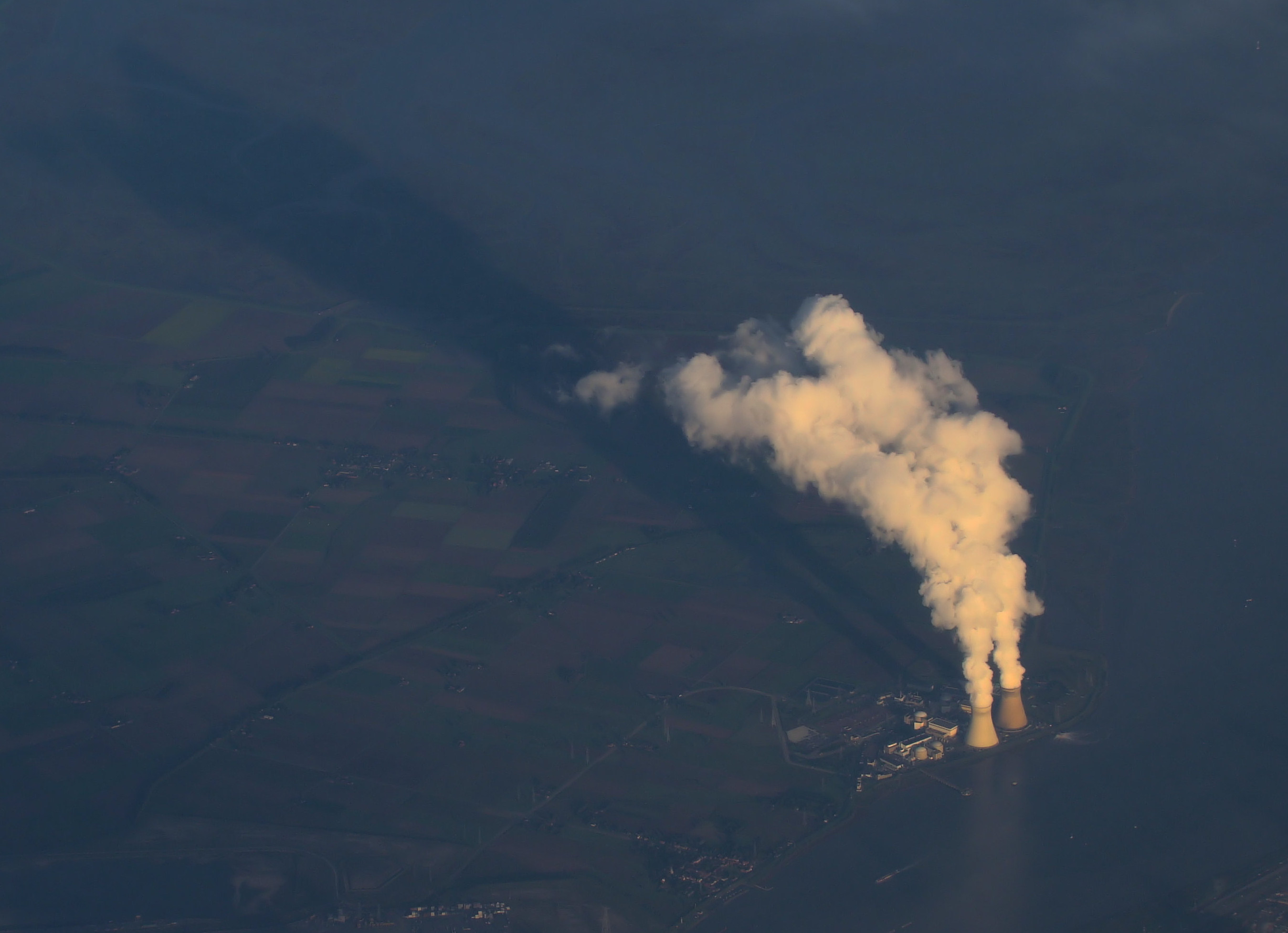 The Doel Nuclear Power Station near Antwerp photographed from a commercial airliner en-route between Oslo, Norway and Bordeaux, France.